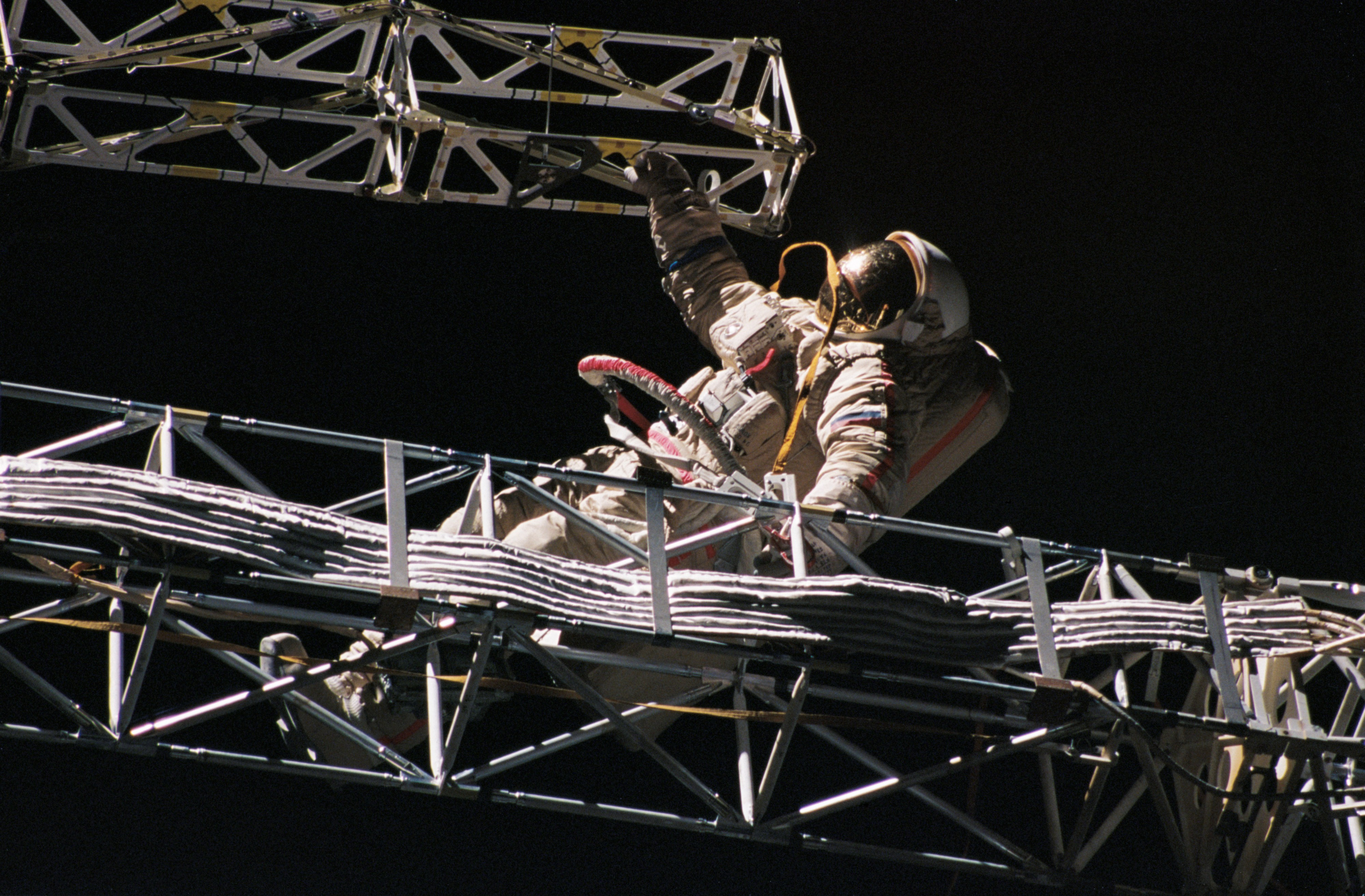 Cosmonaut Yury Onufriyenko stands on the Sofora truss of the Russian space station Mir during EO-21, holding the neighbouring Rapana truss.